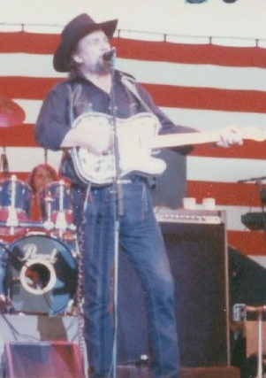 Waylon Jennings on stage at Rocky Gap